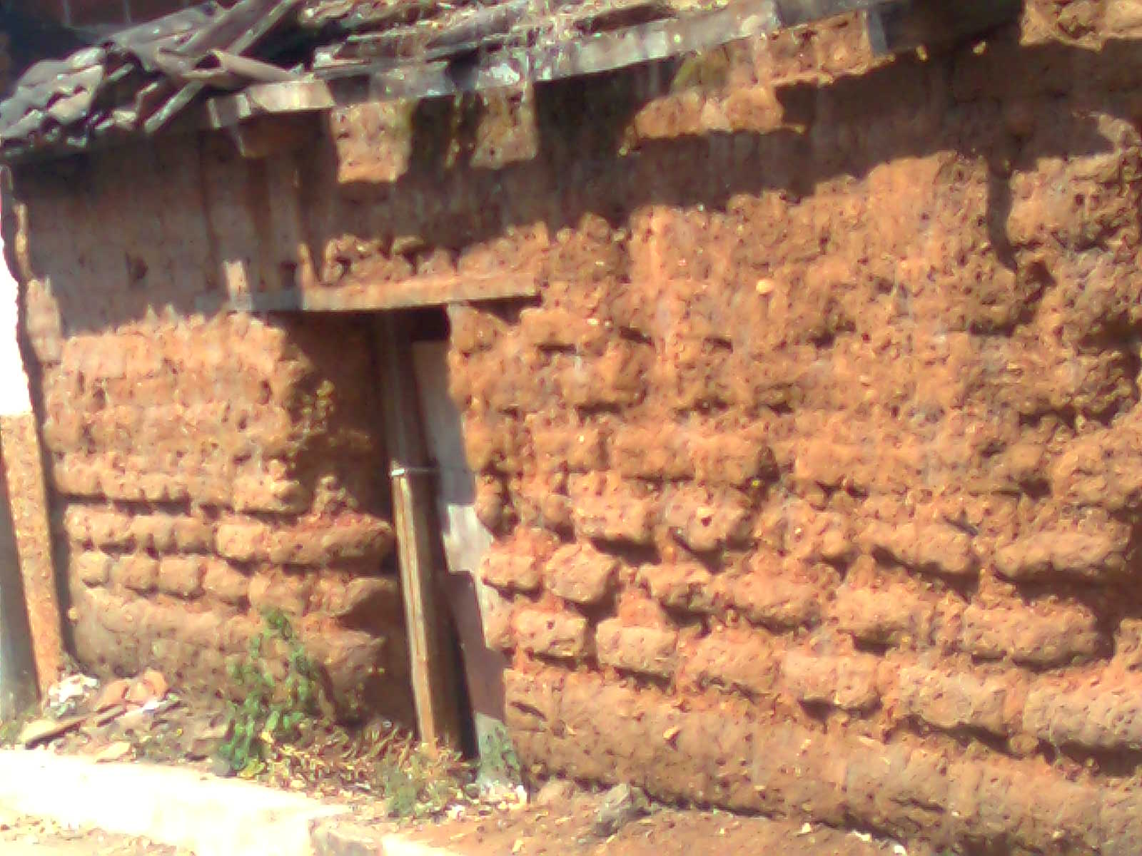 old construction from la laguna chalatenango, el salvador